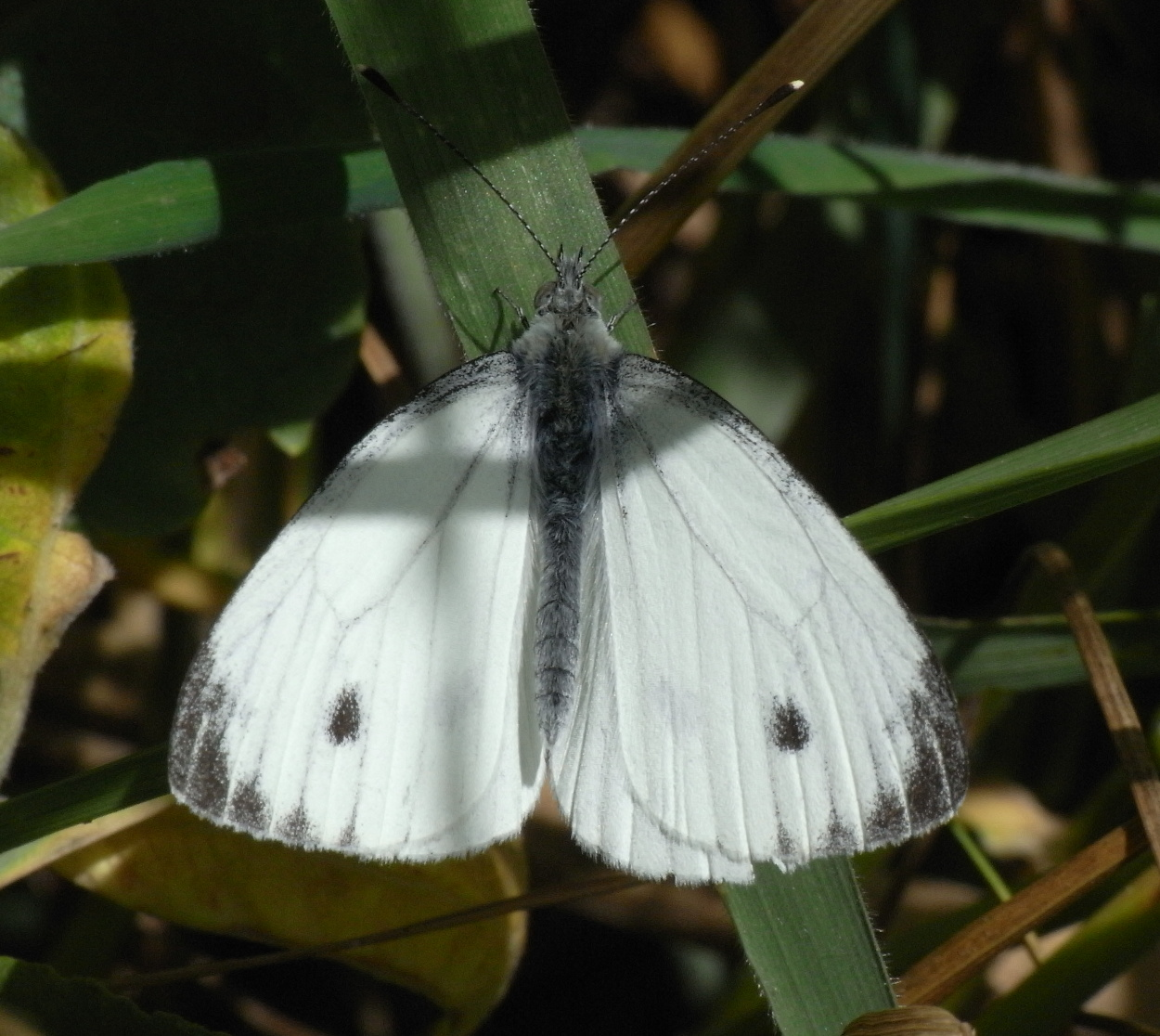 Green-veined White (Pieris napi) near Hamburg, Germany.